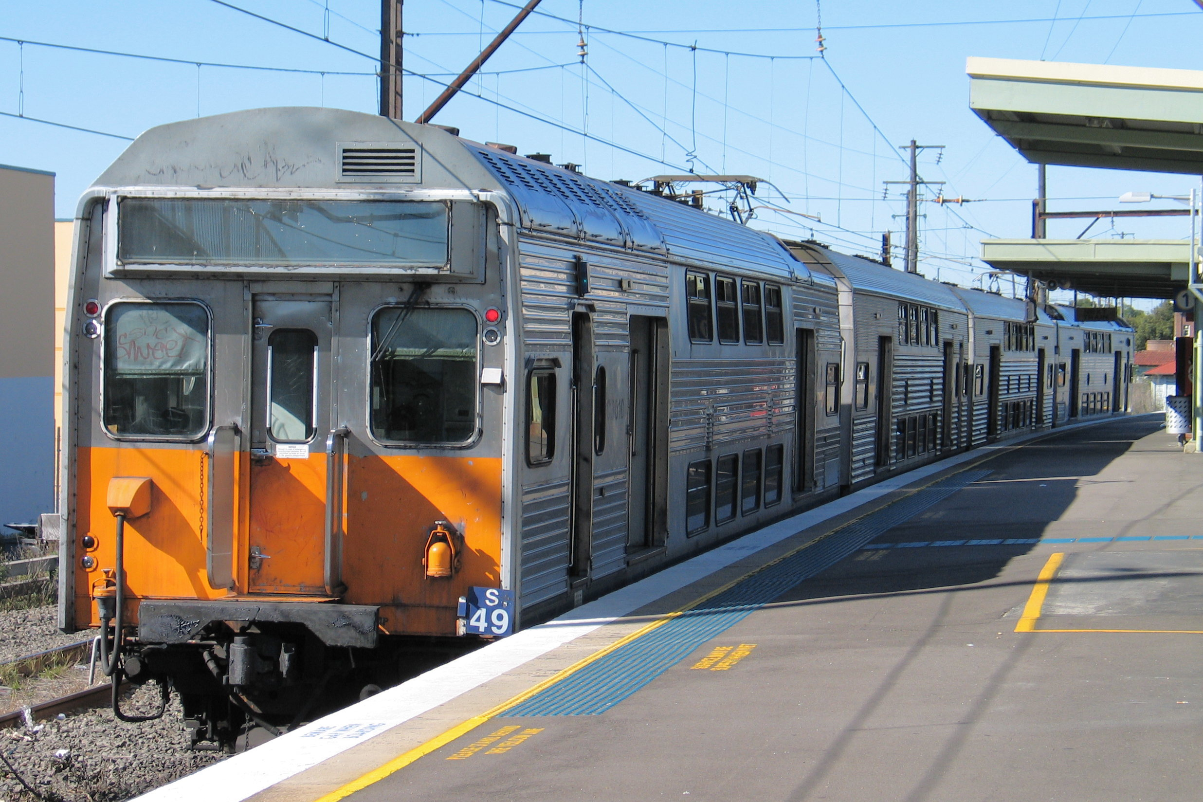 CityRail S set 49 at Clyde station.